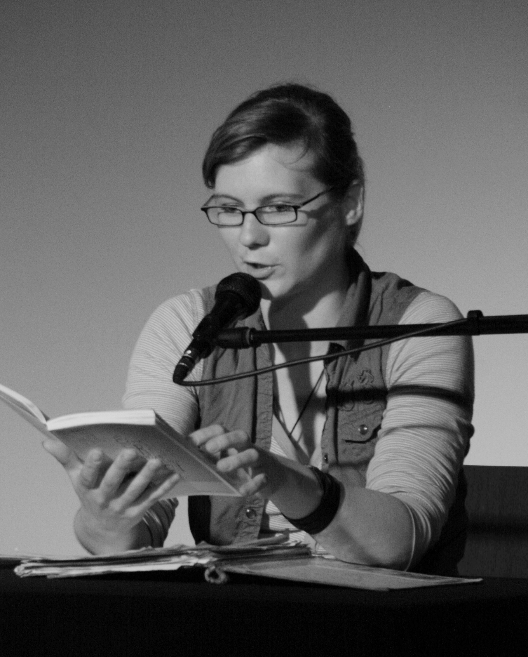 German author Kirsten Fuchs during a reading in Chemnitz, Germany in April 2012.